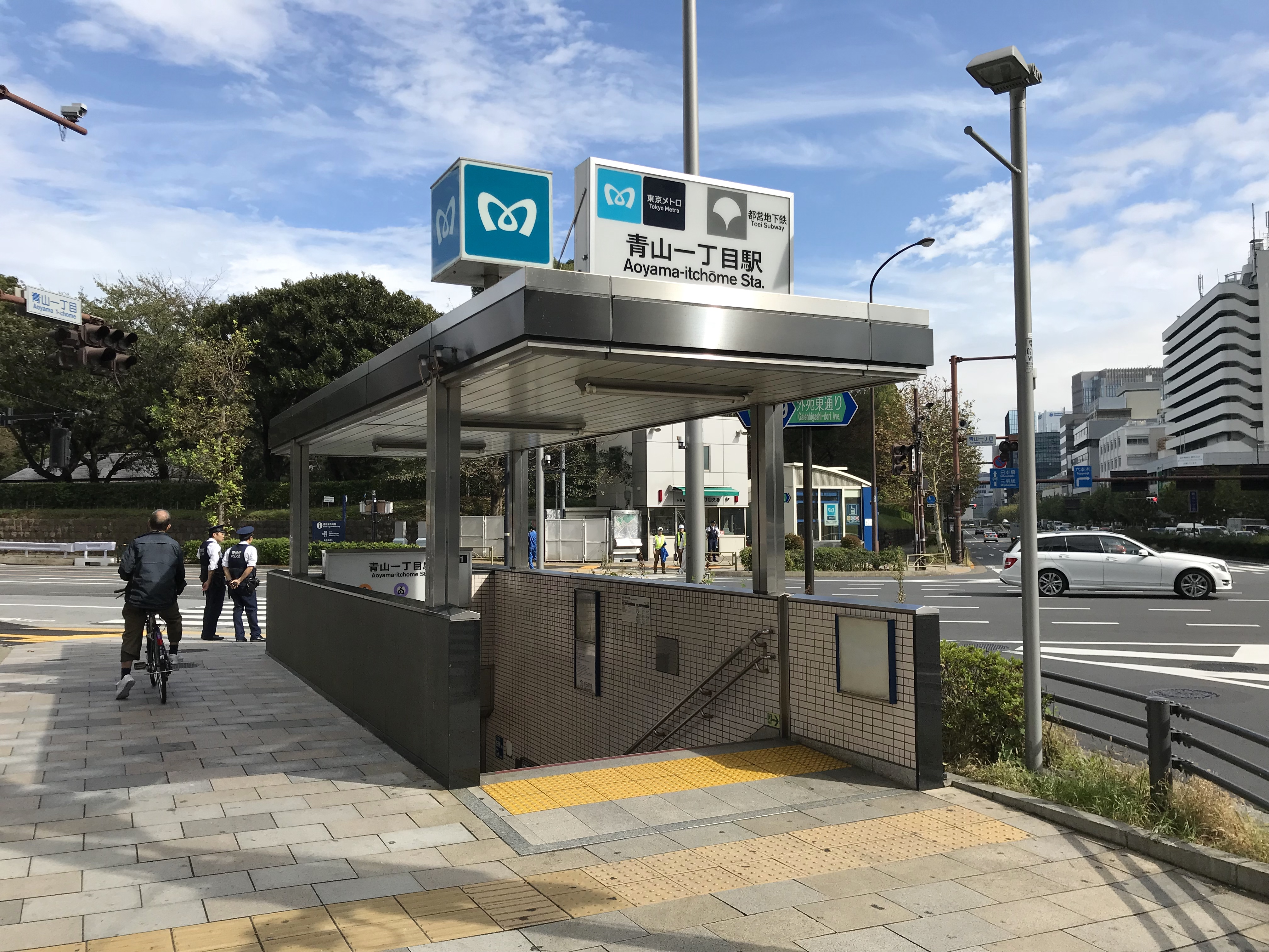 Exit 1 at Aoyama-itchome Station on the Tokyo Metro Ginza and Hanzōmon Lines and the Toei Subway Ōedo Line